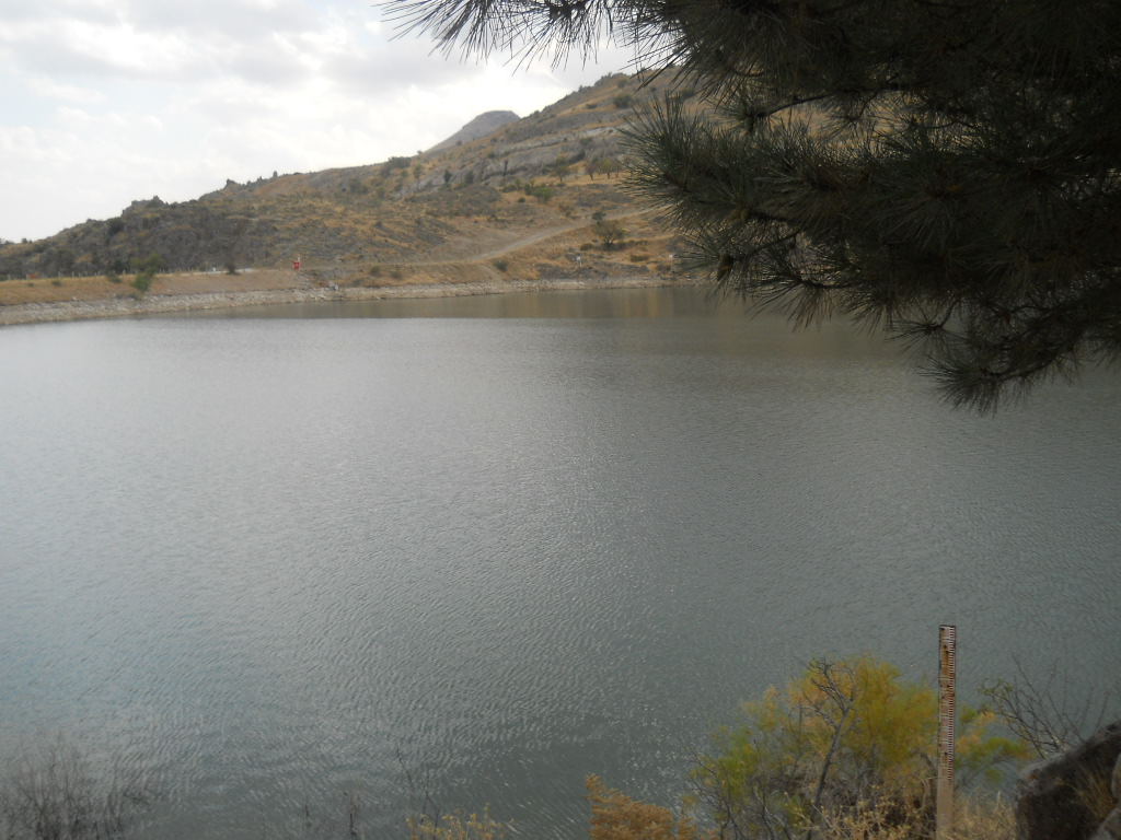 Sille Baraj Gölü, Konya